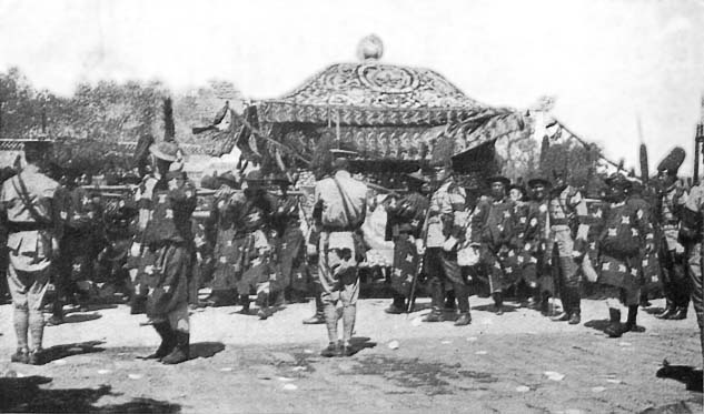 The Funeral of Yuan Shih-kai: The Catafalque over the Coffin on its way to the Railway Station.